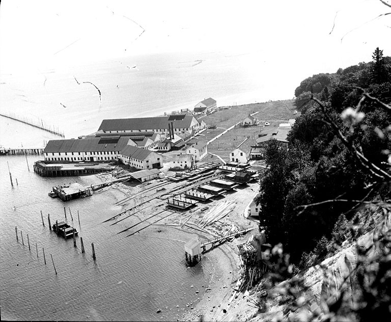 From John Cobb field notebook: Point Roberts cannery from hillside Subjects (LCTGM): Canneries--Washington (State)--Point Roberts Subjects (LCSH): Salmon canning industry--Washington (State)--Point Roberts